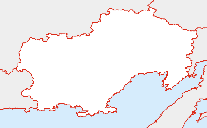 Map of Magadan oblast in Russia, based on ru::Image:Russia-equirectang*1,5.png